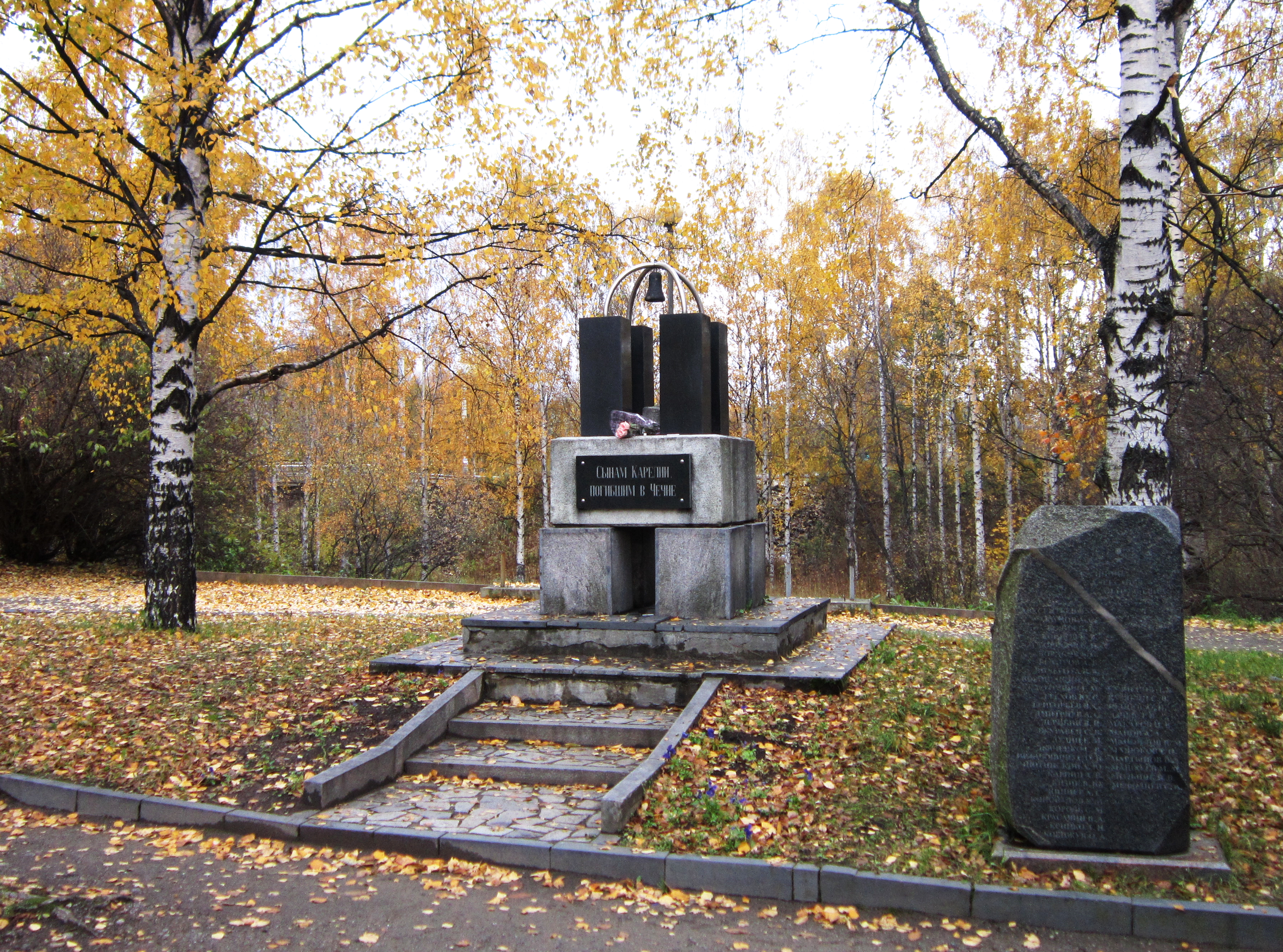 To sons of Karelia the victim in Chechnya